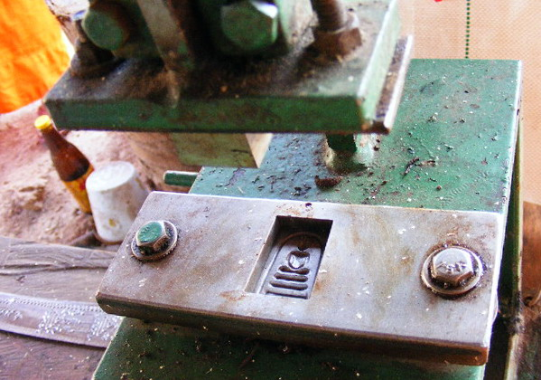 image of Buddha earth printer.Ban Nam Phi, Nam Phi subdistrict, Amphoe Thong Saen Khan, Uttaradit Province, Thailand.